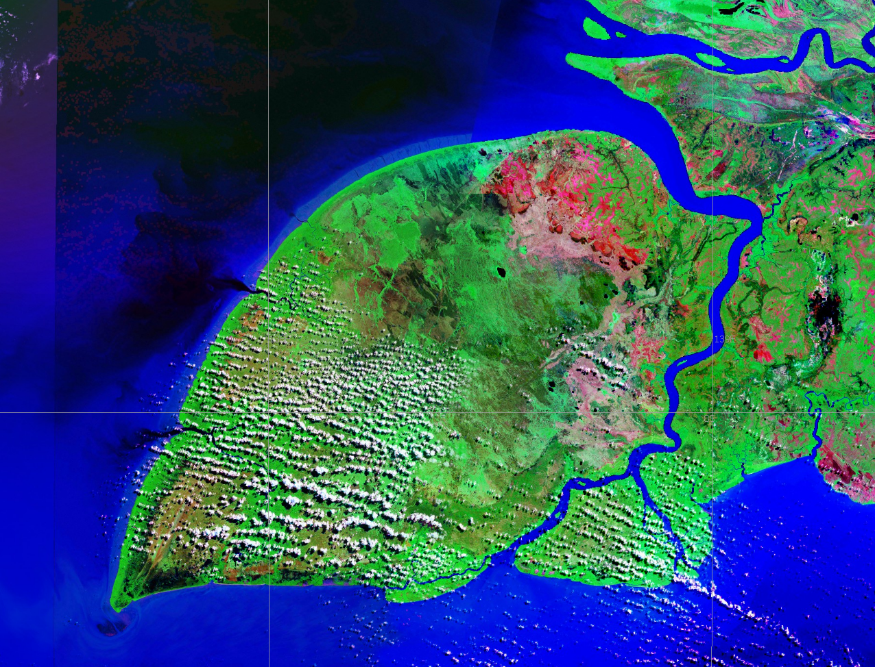 Yos Sudarso Island, Papua, Indonesia (formerly Frederik Hendrik Island)